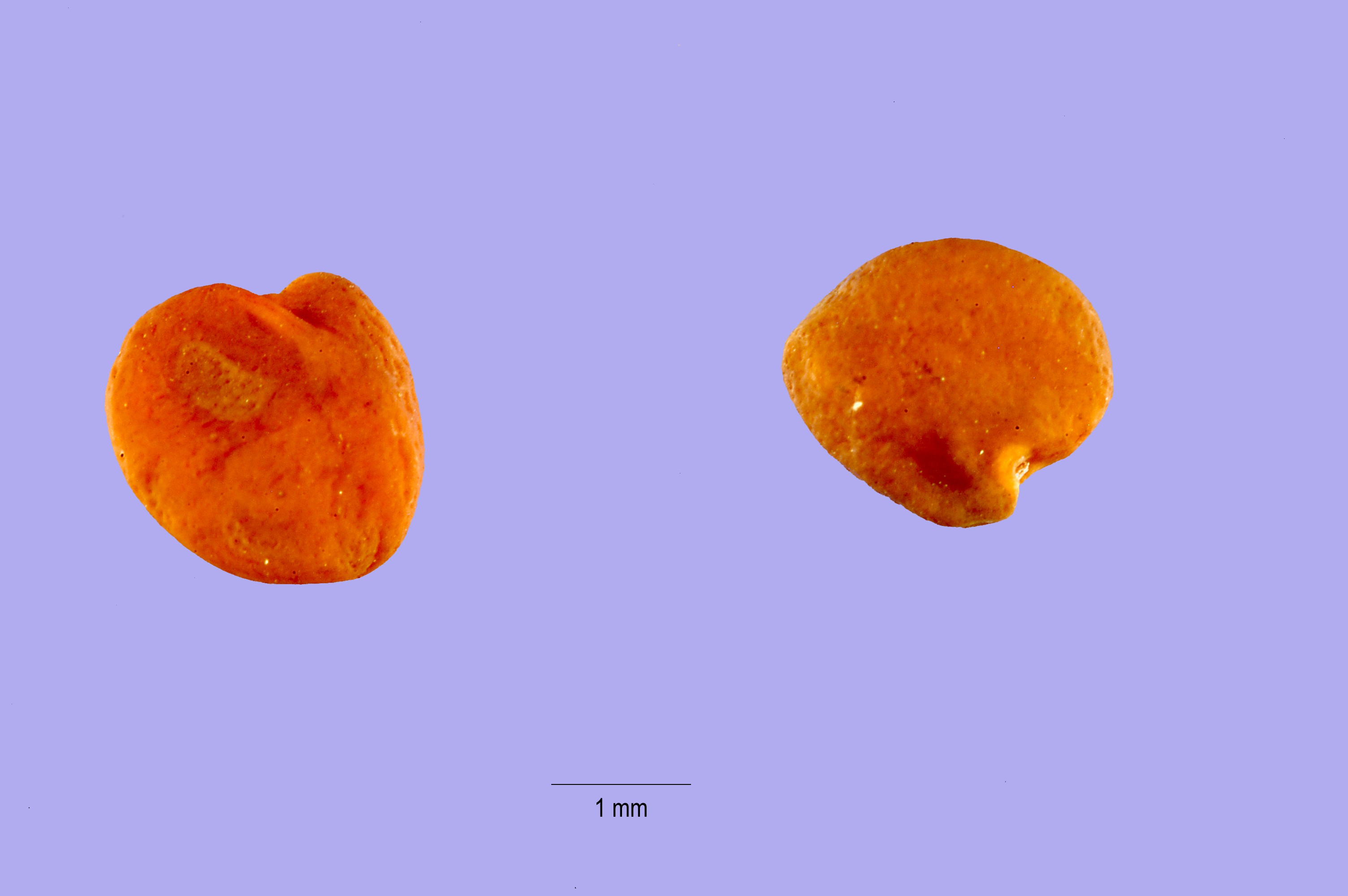 seeds of Astragalus diaphanus from Tracey Slotta. Provided by ARS Systematic Botany and Mycology Laboratory. United States, NV, Humboldt Co.